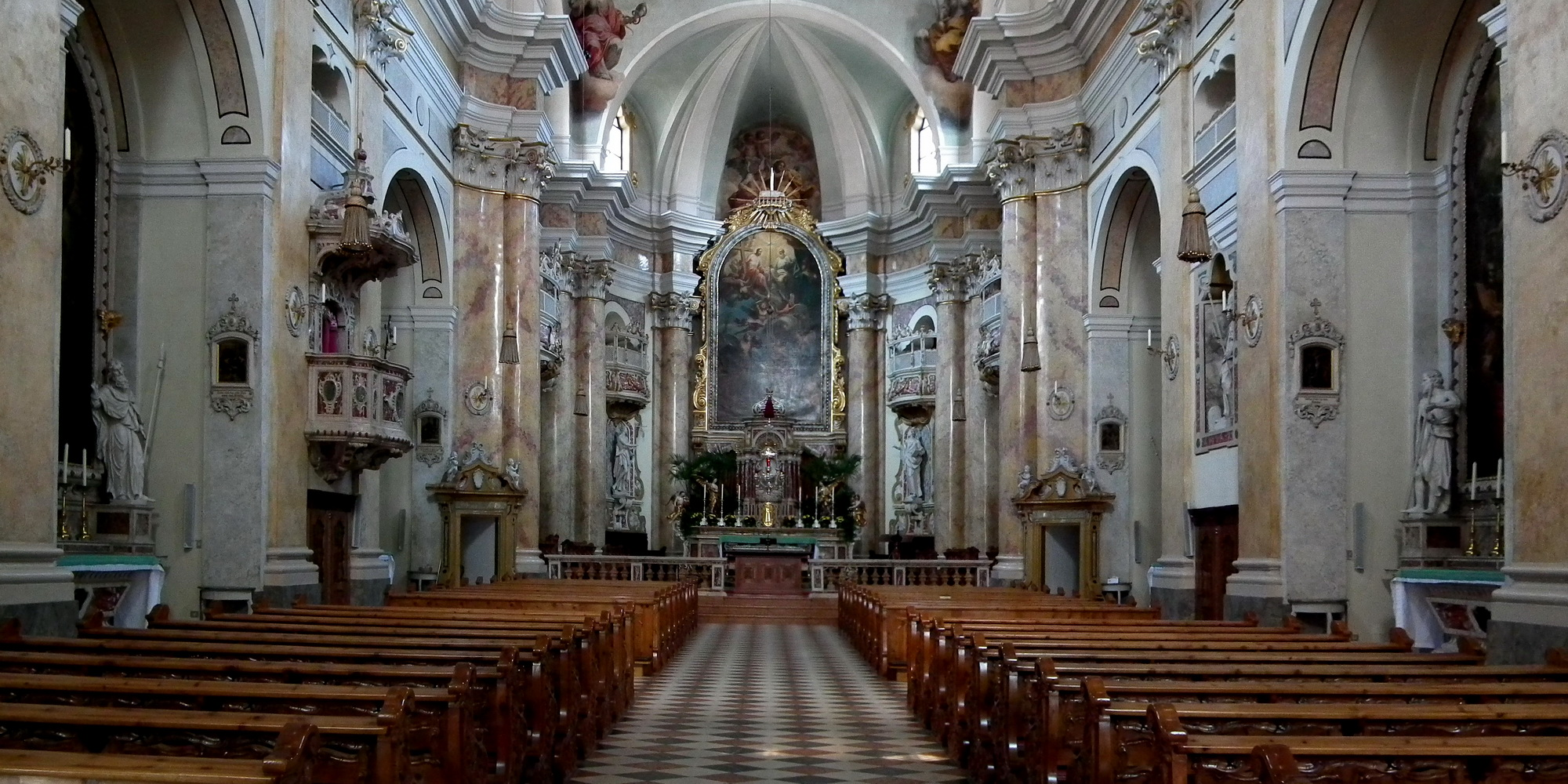 Muri-Gries Abbey Native nameAbbazia di Muri-Gries(Abtei Muri-Gries)LocationBolzano, ItalyCoordinates46° 30′ 11.6″ N, 11° 20′ 06.1″ E Web page Authority control : Q334056 VIAF: 9785149719125811130004 GND: 4538871-4 institution QS:P195,Q334056